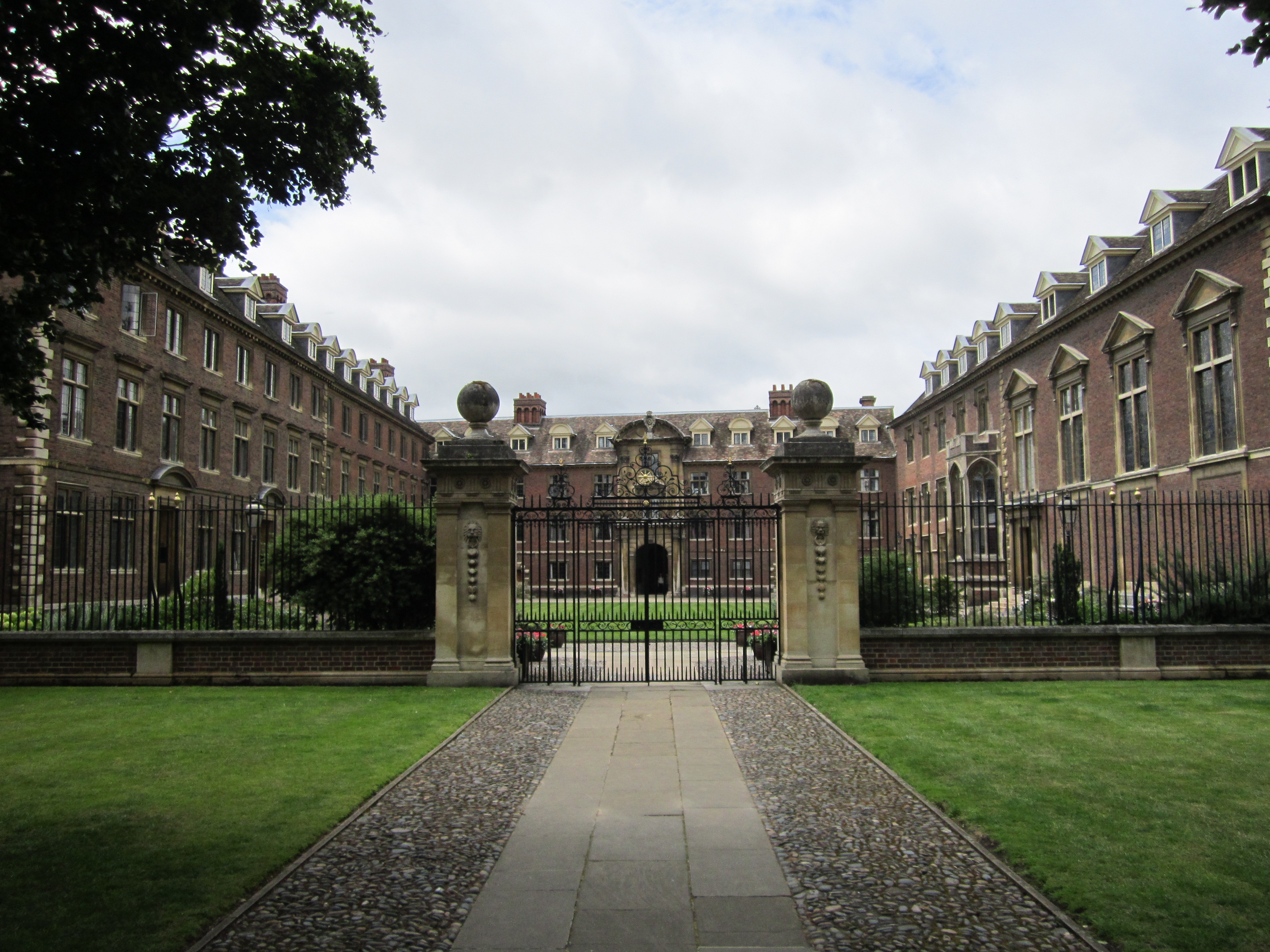 St Catharine's College, Cambridge, England.